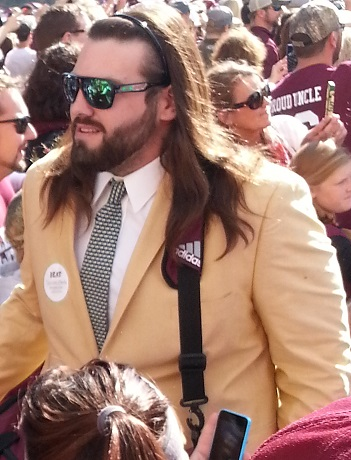 Ben Beckwith on November 8, 2014